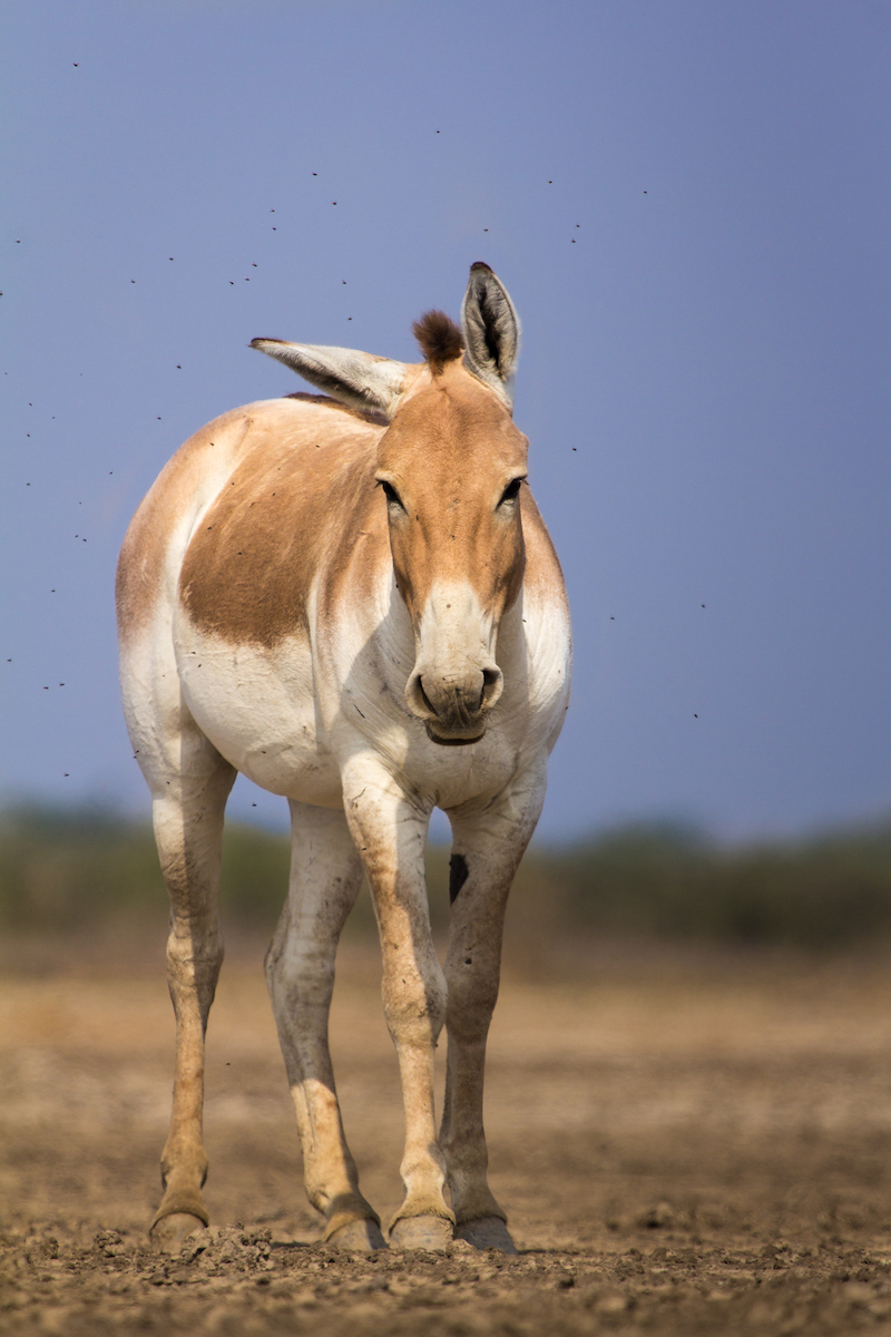 Individual from Little Rann of Kutch